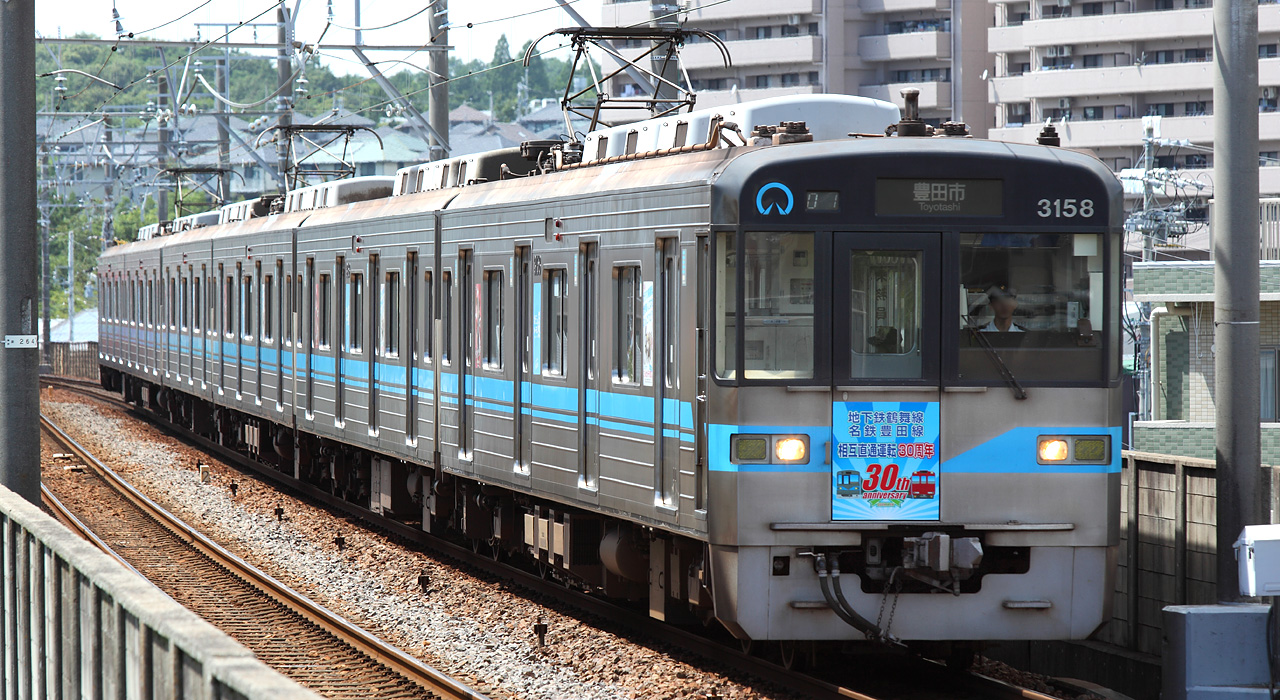 Nagoya Municipal Subway 3050 series EMU ( 3158F ), at Miyoshigaoka Sta.